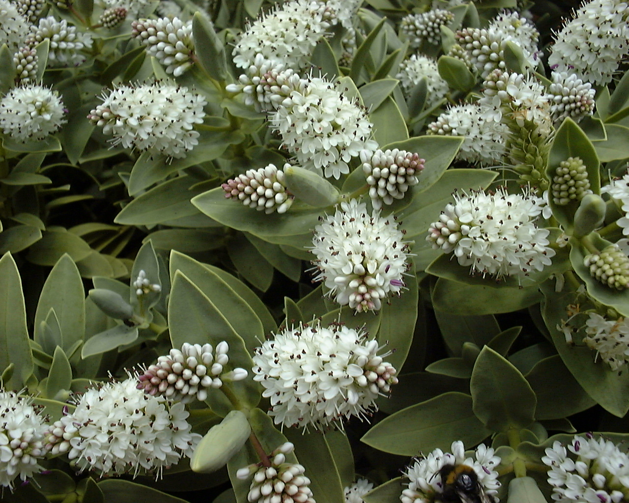 The leaves and flowers of Hebe albicans, a plant of the Hebe genus. The picture was taken at approximately 12:30 UTC under conditions of broken cloud. The equipment used was a Toshiba PDR-M1 digital camera in Auto and Macro modes.